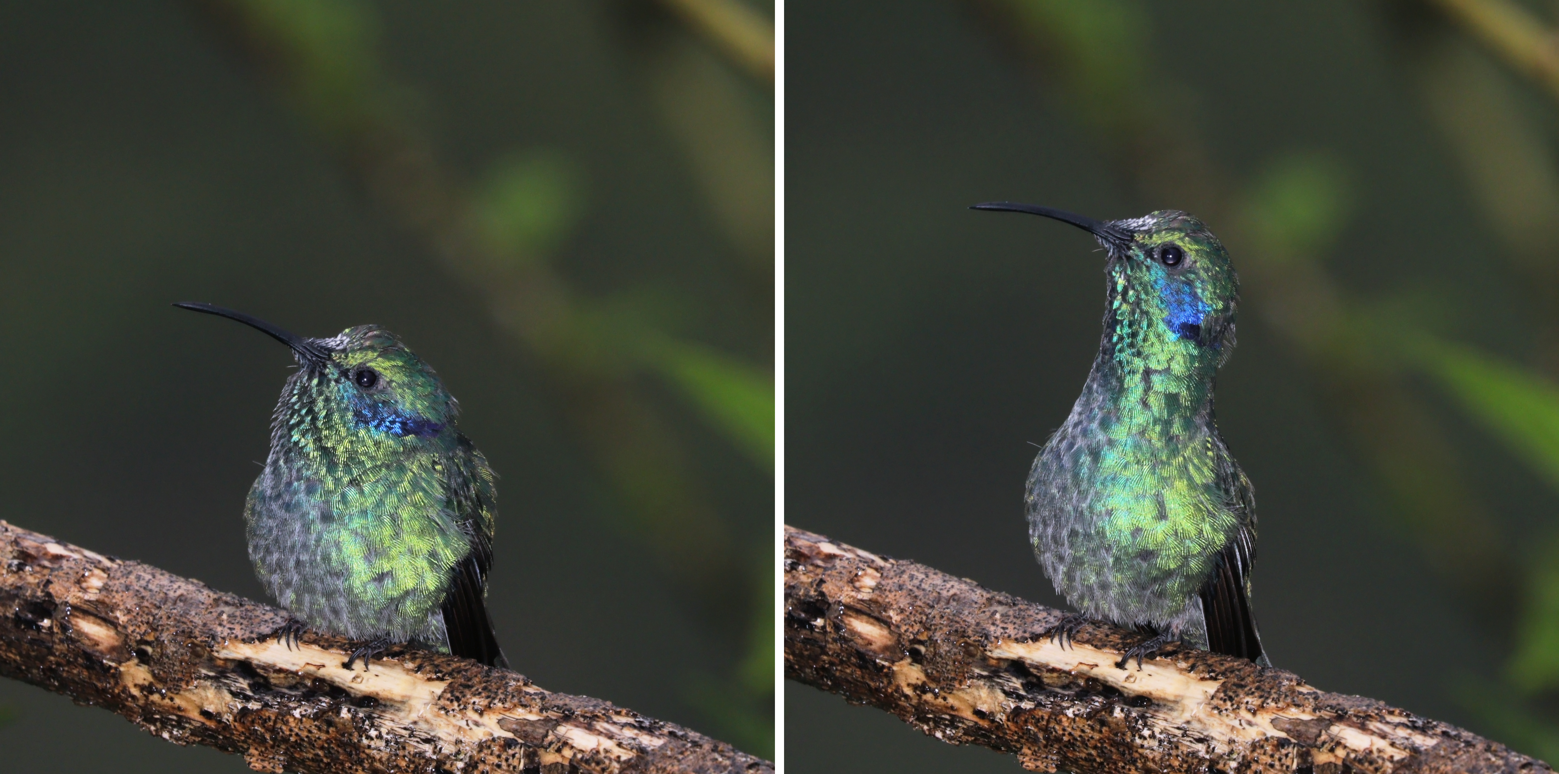 Lesser violetear (Colibri cyanotus), Mount Totumas cloud forest, Panama. Also known as Colibri thalassinus